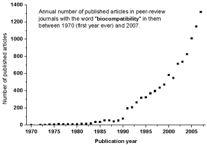 Annual publication track record of articles in peer review journals etc containing the word "biocompatibility". Data obtained from the ISI Web of Knowledge Data spanning from 1970 (first year this word was mentioned) up til 2007.